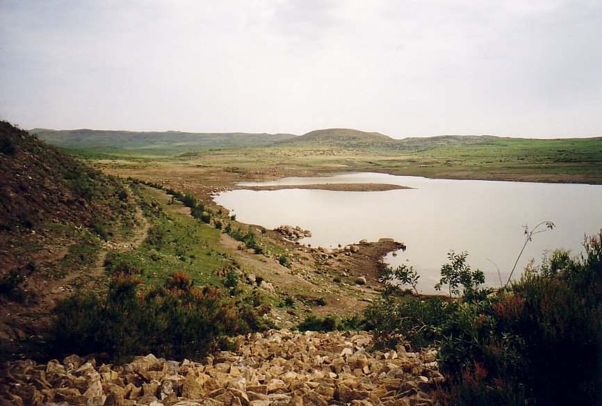 Arato